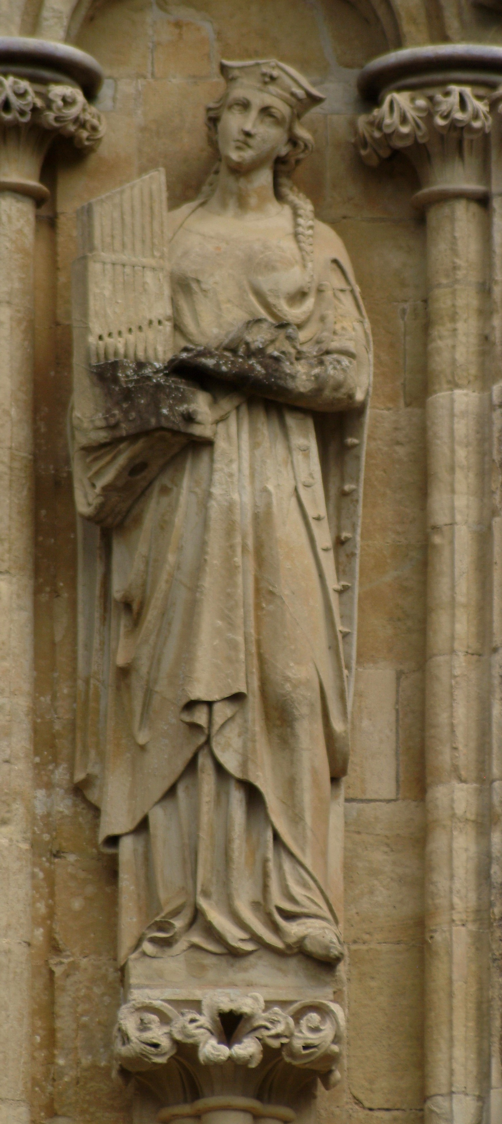 Statue of St Cecilia on the West Front of Salisbury Cathedral, UK.